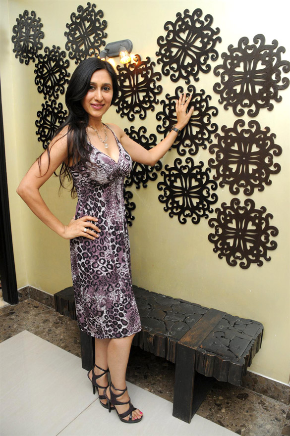 Launch of men's wear 'Pegasus'